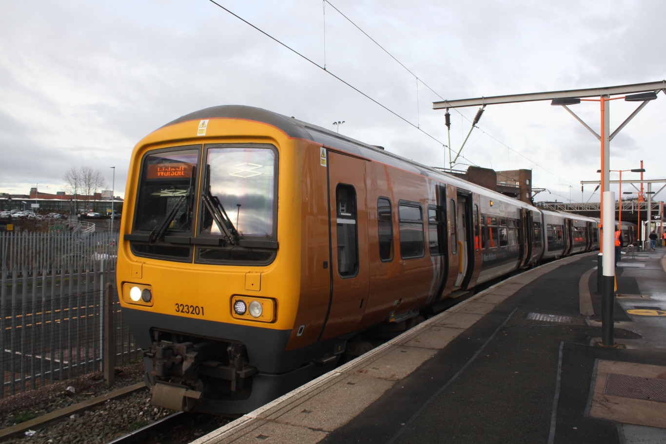 Electric unit 323201 stands at Wolverhampton with a West Midlands Railway service to Walsall via Birmingham New Street.